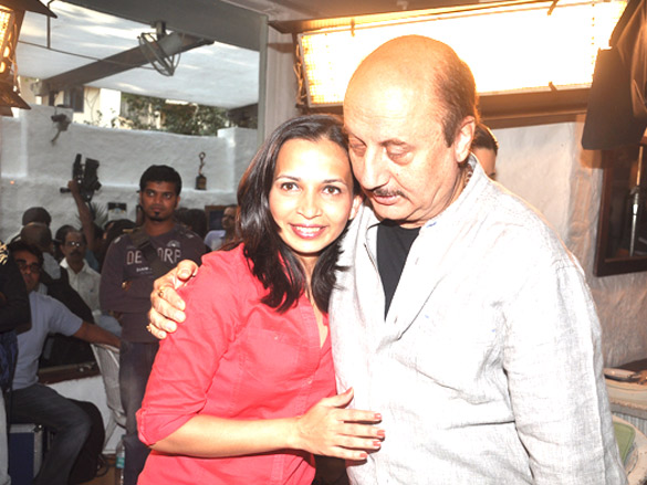 Anupam Kher the success party of Rujuta Diwekar's book